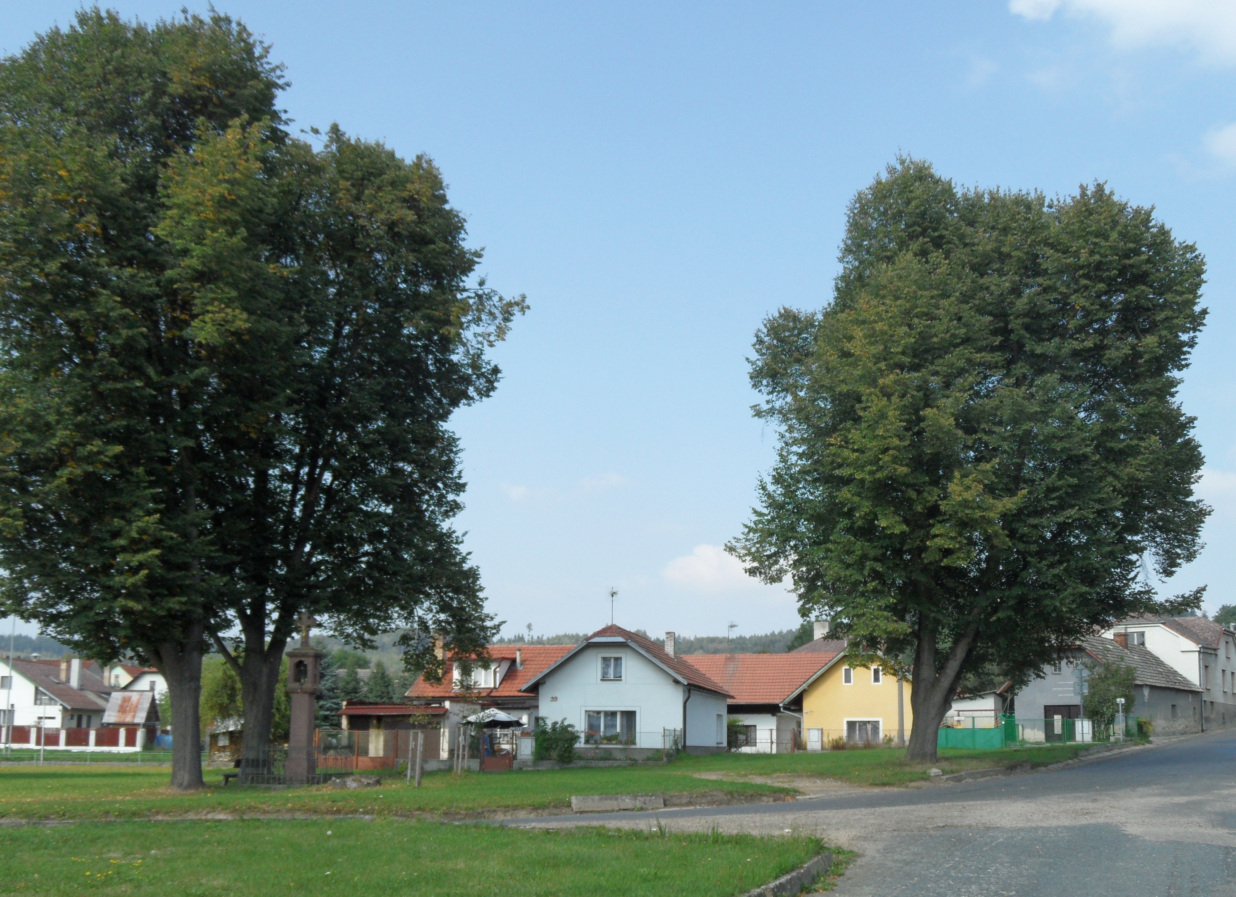 Chabeřice E. Houses at Village Square, Kutná Hora District, the Czech Republic.